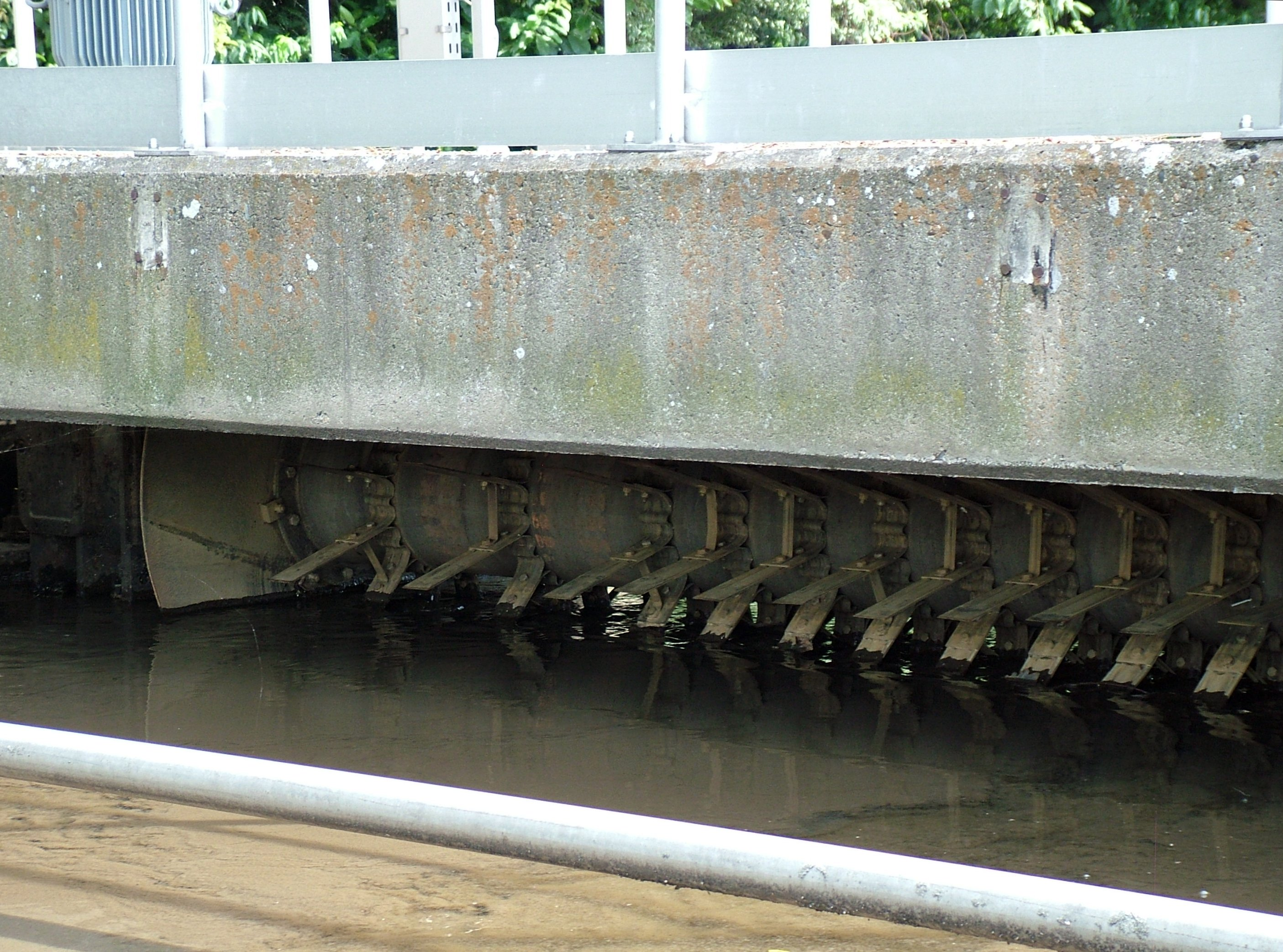 Rotor of a brush aerator on the waste water treatment of Burcht (Beveren, Belgium). At the top left, you can see the engine on the bridge that drives the rotor.